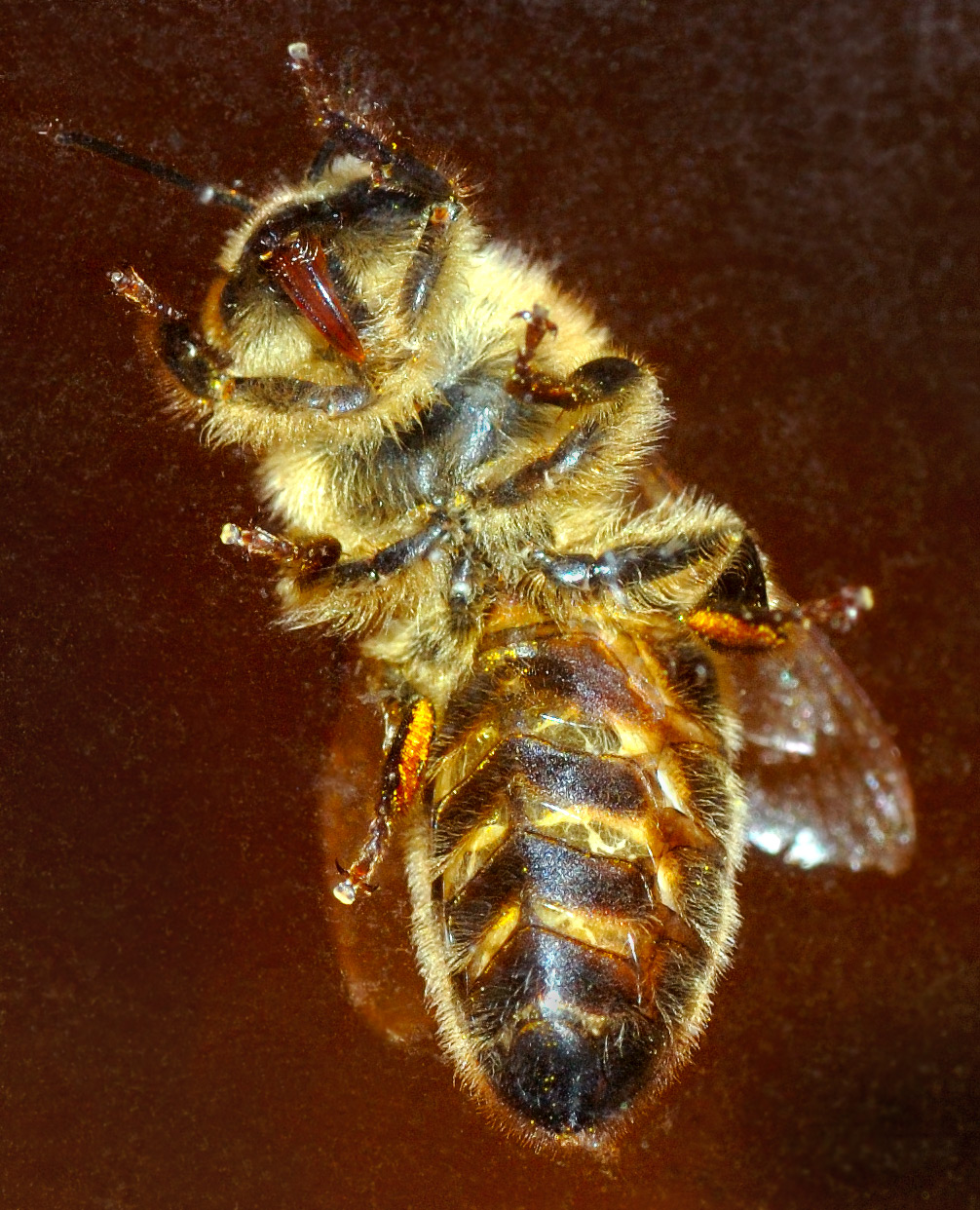 This image shows a western honeybee (Apis mellifica) from bottom. The bee sat on a window pane while I was on the other side by accident.